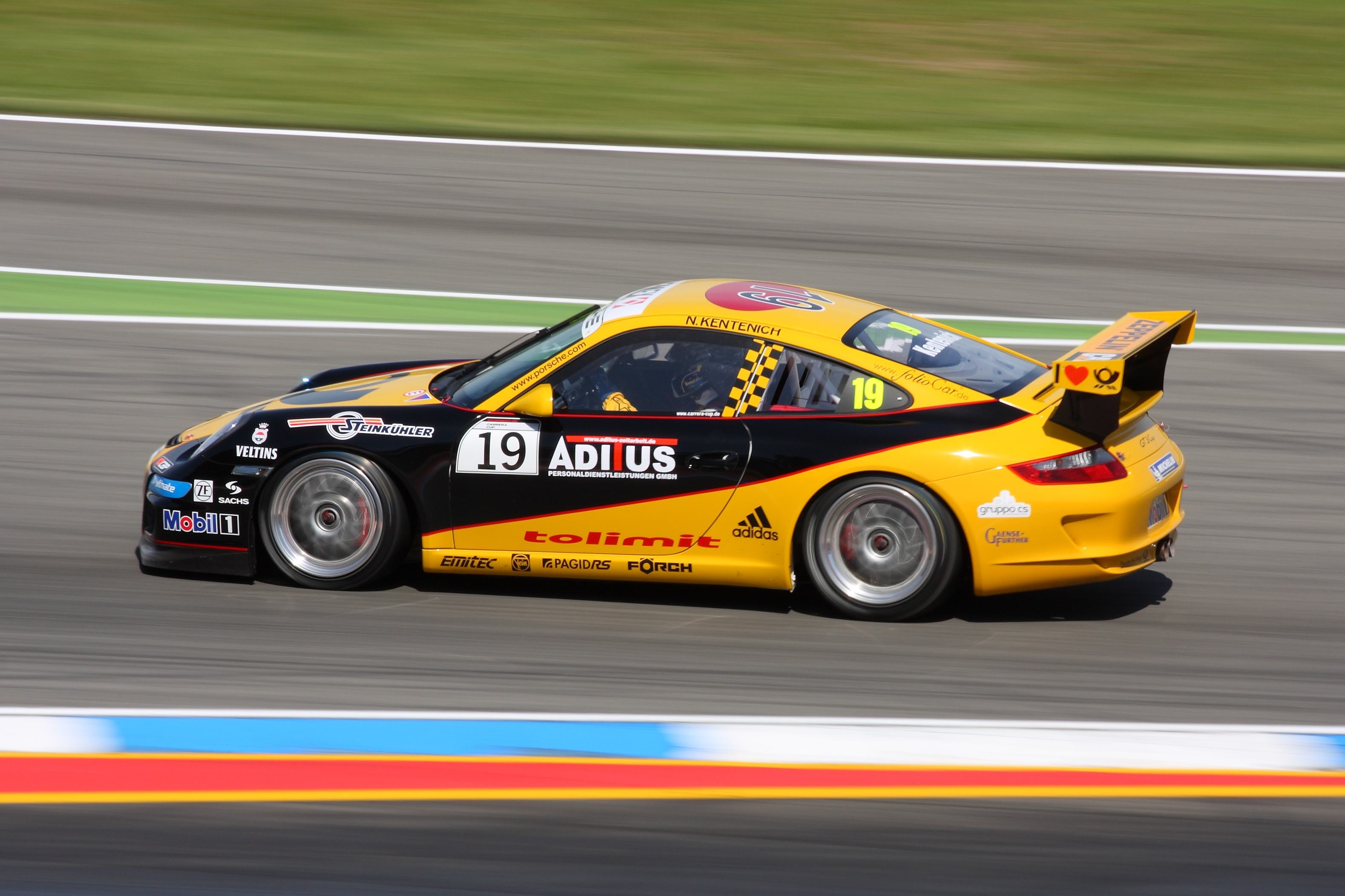 Porsche racing car at Hockenheim Ring, Niclas Kentenich (driver).